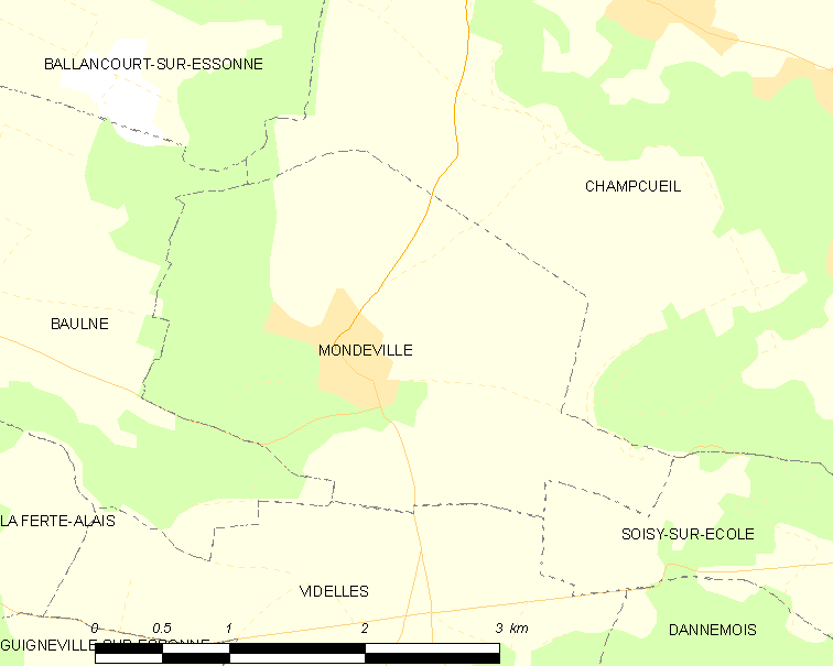 Map of French municipality Mondeville